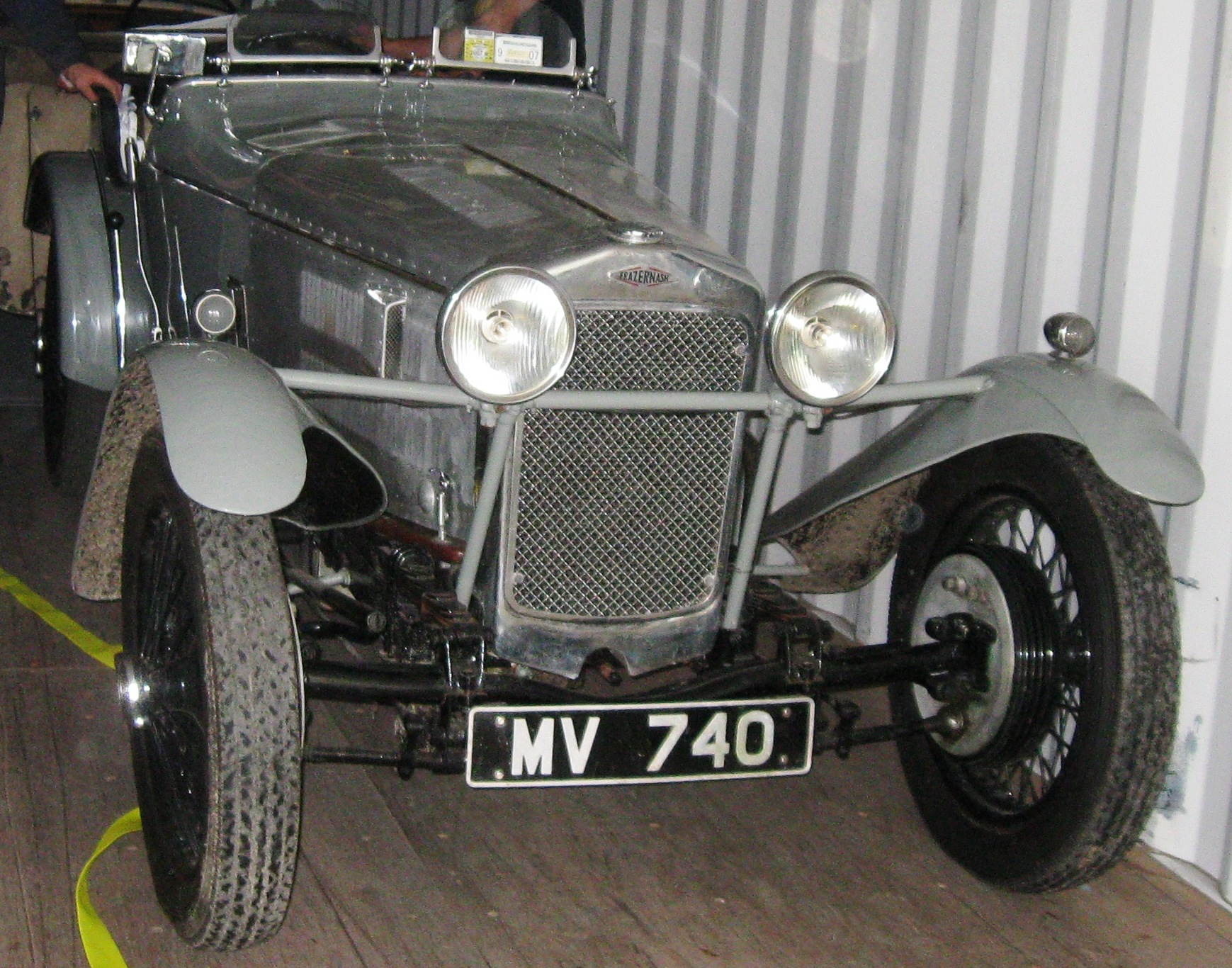 1931 Frazer Nash car, Falcon model, Chassis number 2034